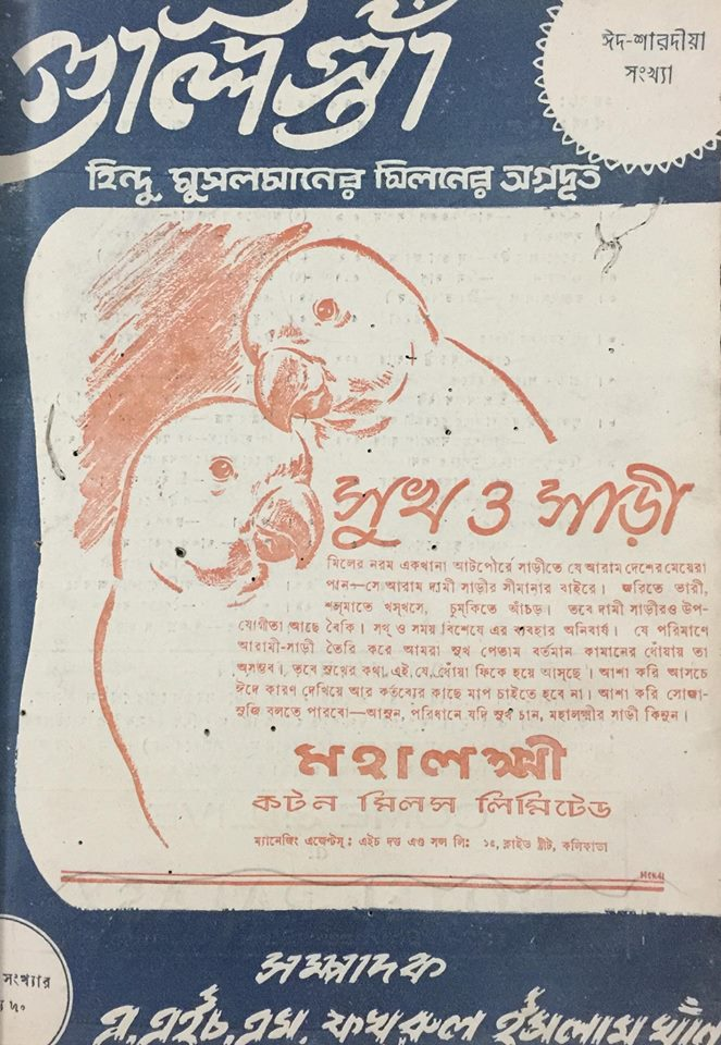 Gulisthan, A Bengali newspaper published from Kolkata, Edited by Fakhrul Islam Khan